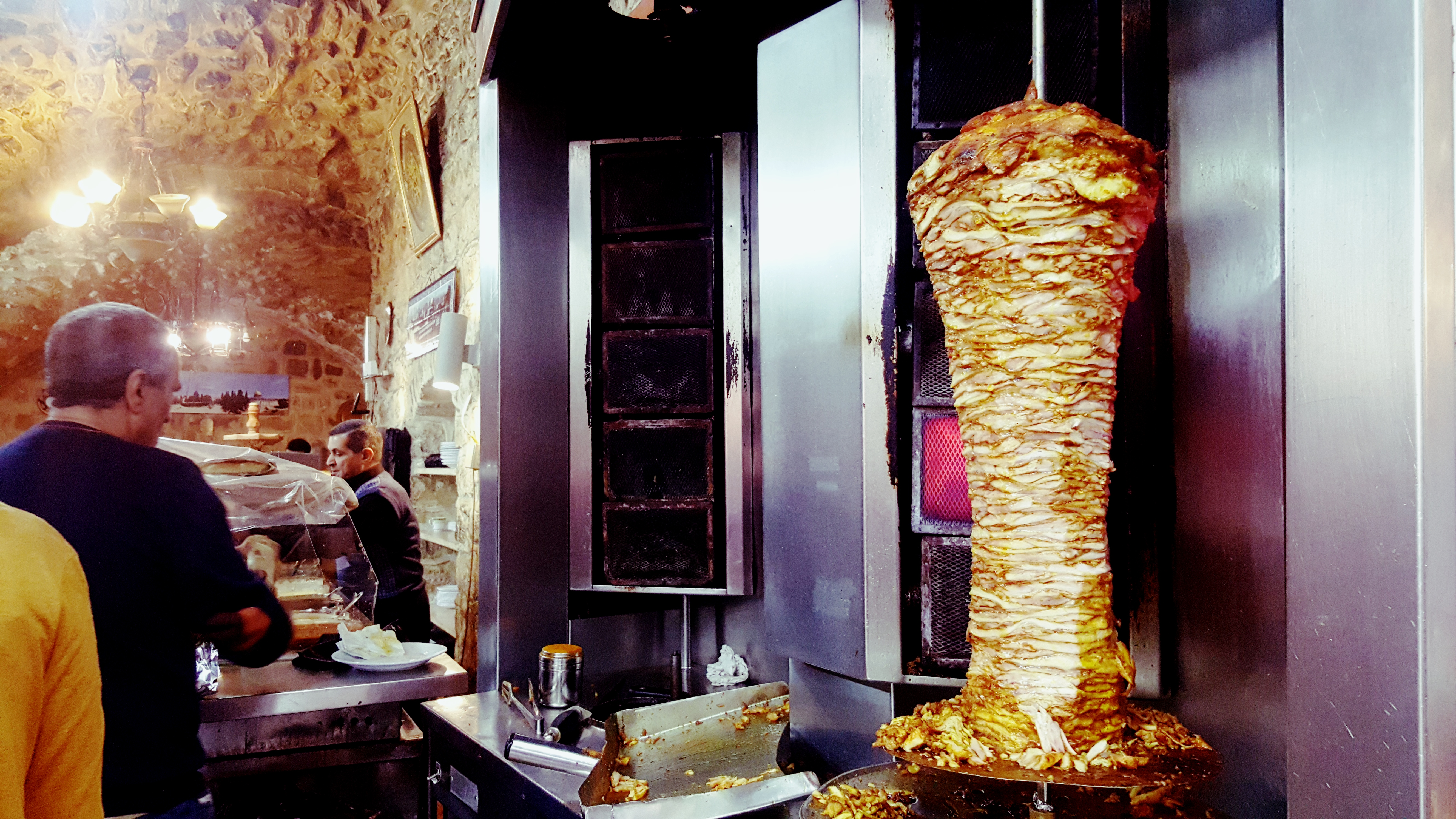 Shawarma in the old city of Jerusalem. شاورما مدينة القدس في أسواق البلدة القديمة